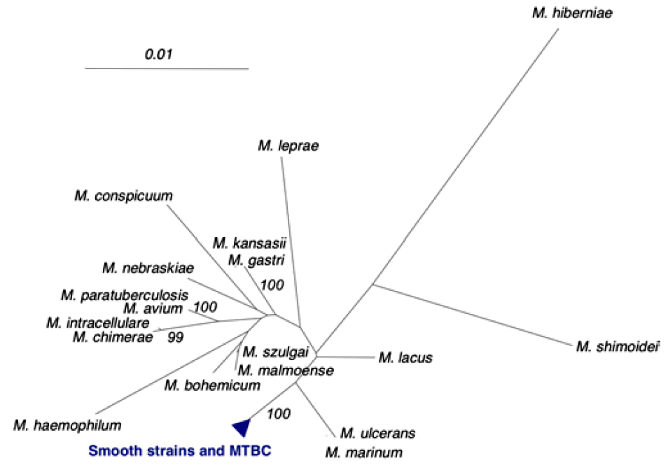 Phylogenetic Position of the Tubercle Bacilli within the Genus Mycobacterium. The blue triangle corresponds to tubercle bacilli sequences that are identical or differing by a single nucleotide. The sequences of the genus Mycobacterium that matched most closely to those of M. tuberculosis were retrieved from the BIBI database ( and aligned with those obtained for 17 smooth and MTBC strains. The unrooted neighbor-joining tree is based on 1,325 aligned nucleotide positions of the 16S rRNA gene. The scale gives the pairwise distances after Jukes-Cantor correction. Bootstrap support values higher than 90% are indicated at the nodes.